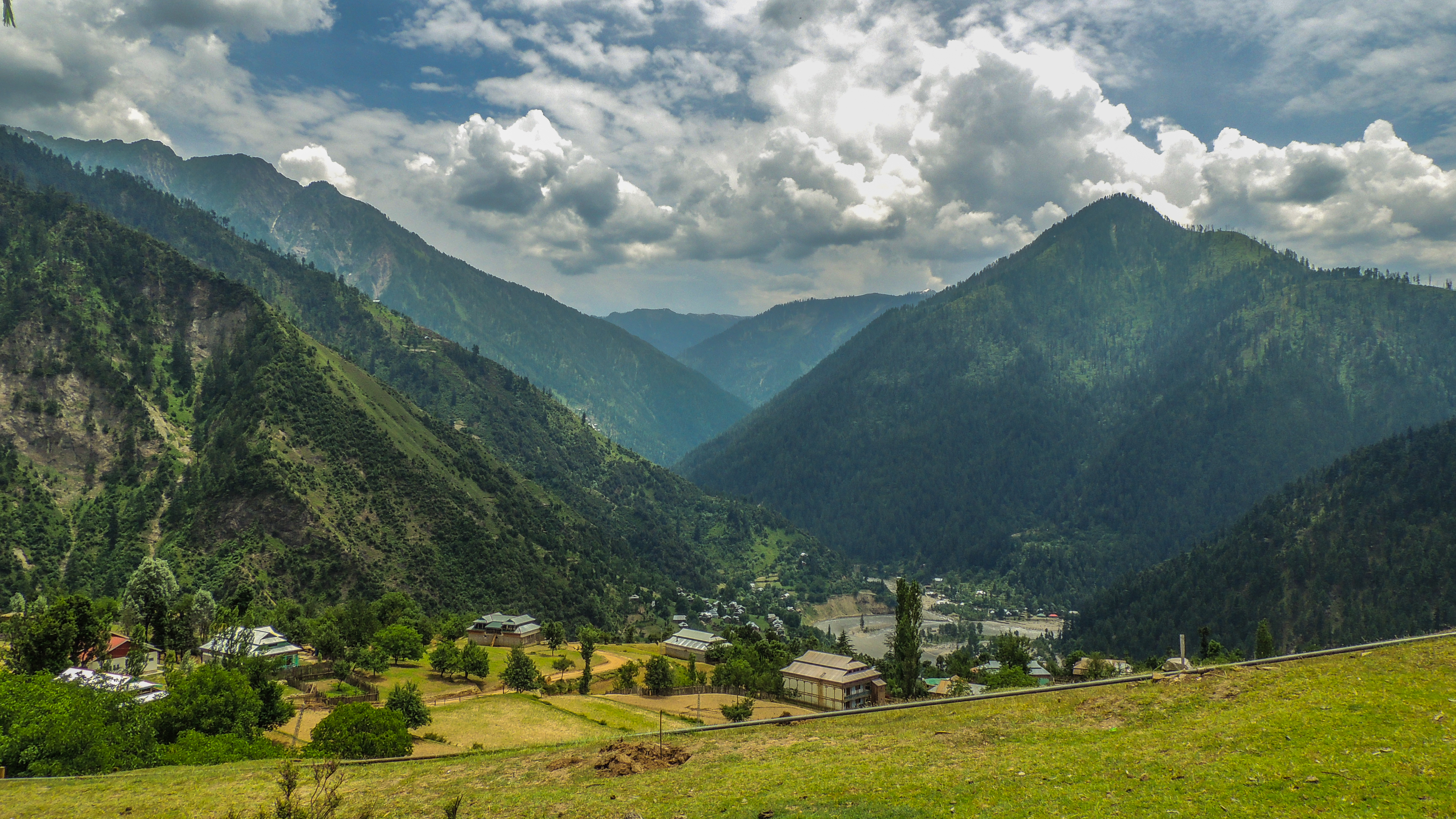 Dive into the valley & u won't be disappointed.